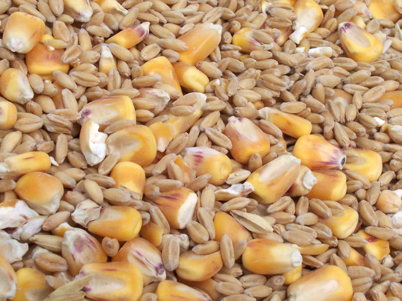 Assorted grains